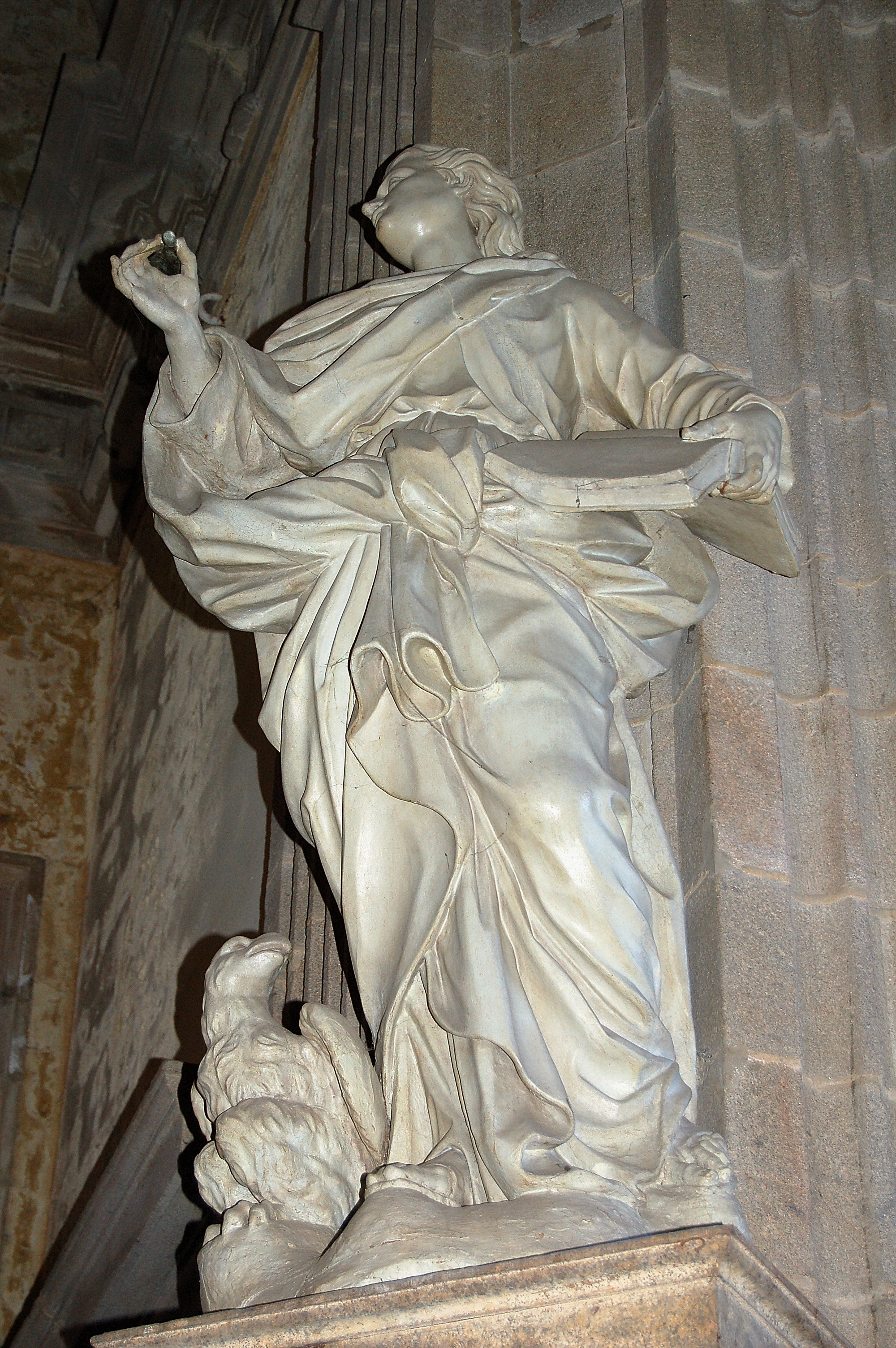 San Xoán Evanxelista de Xosé Ferreiro